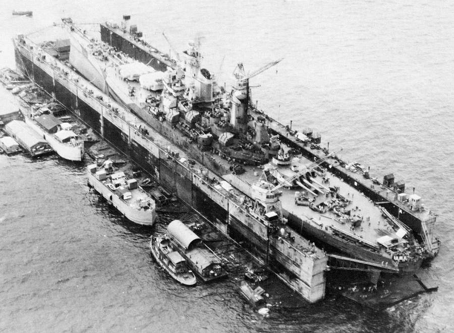 USS Iowa (BB-61) in a floating drydock at Manus Island, Admirality Islands, 28 December 1944.